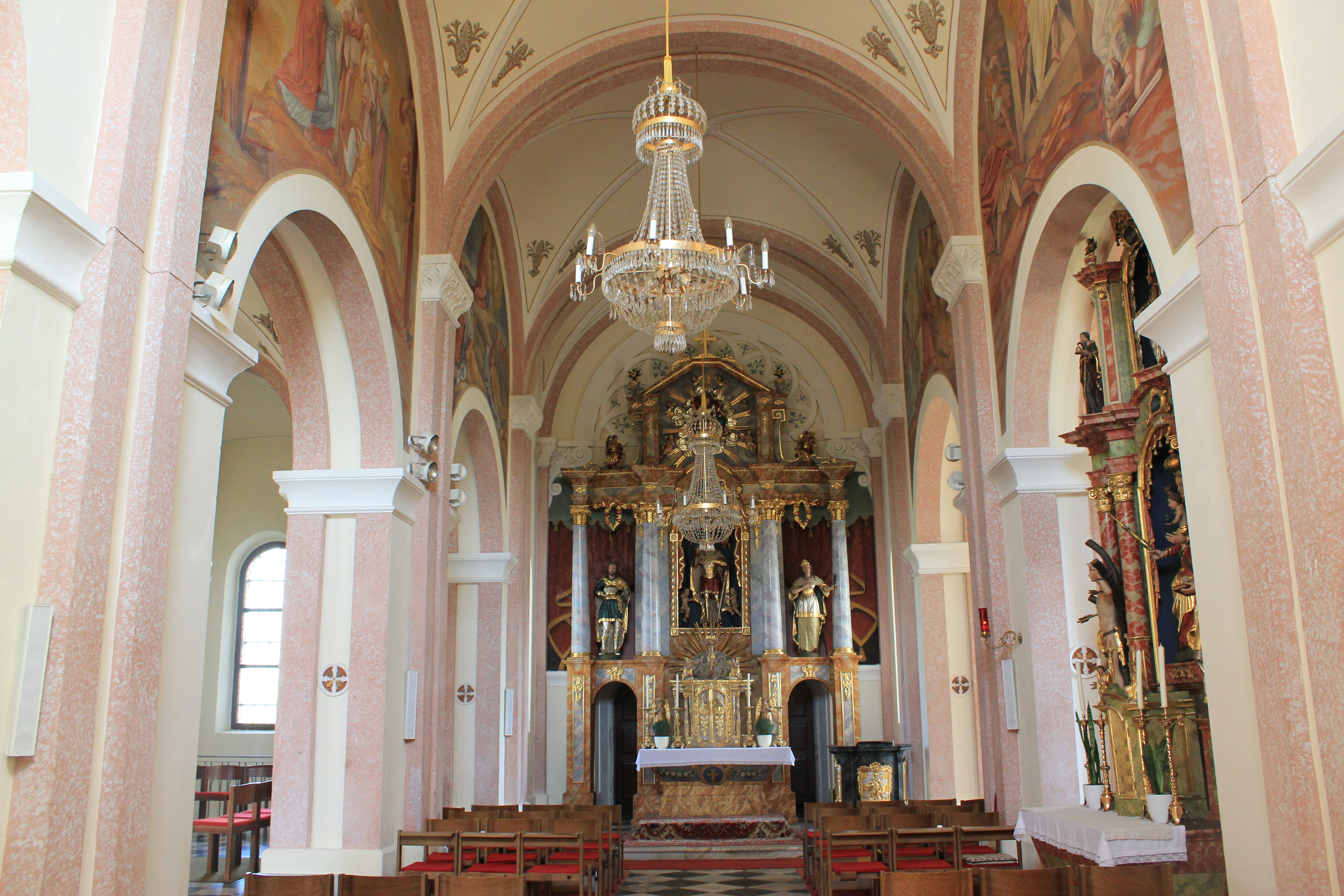 Parish church of Sankt Kanzian am Klopeiner See